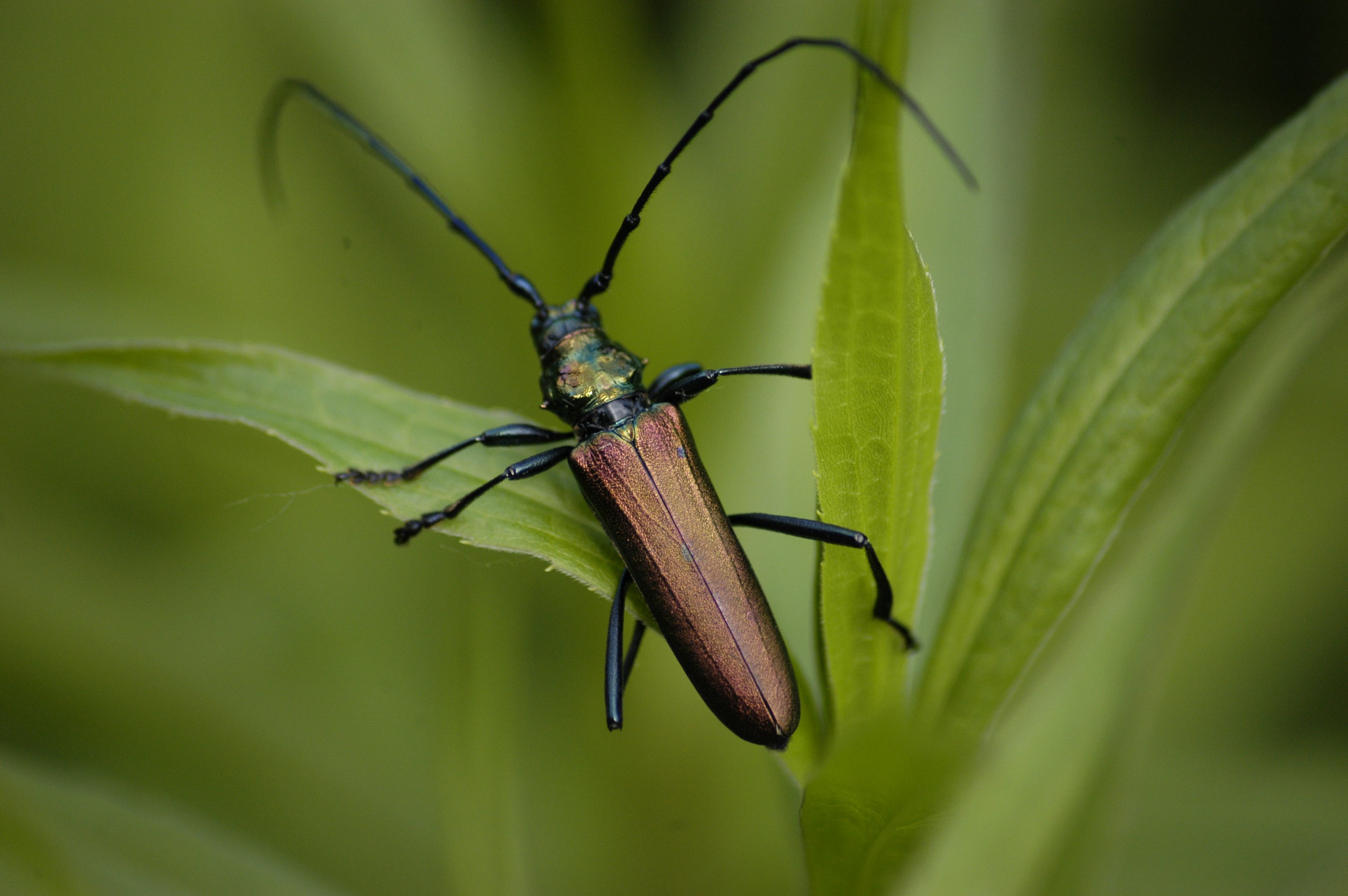 Musk beetle (Aromia moschata)